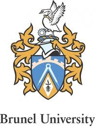 Coat New